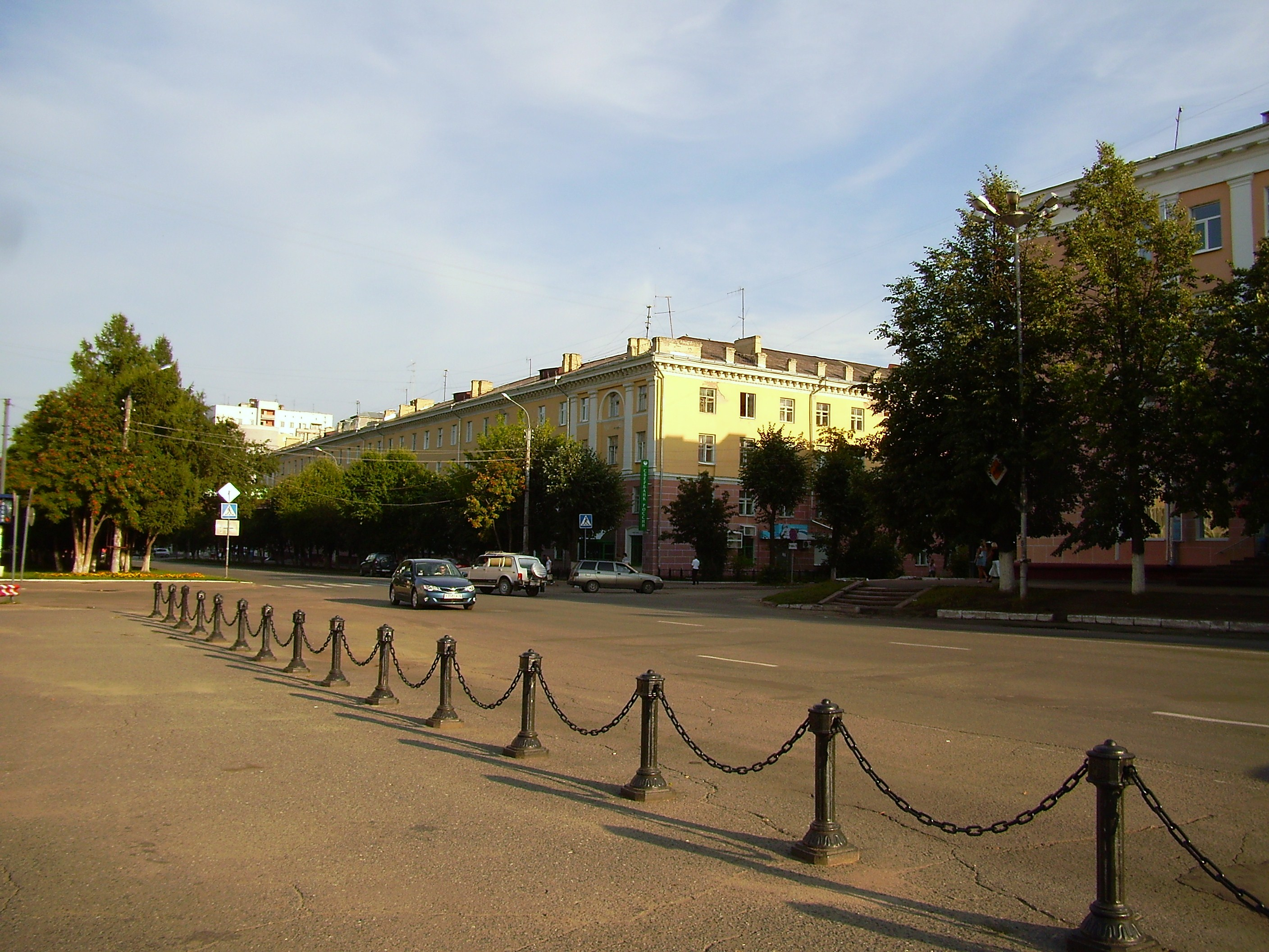 The Lenin prospectus around Lenin's square